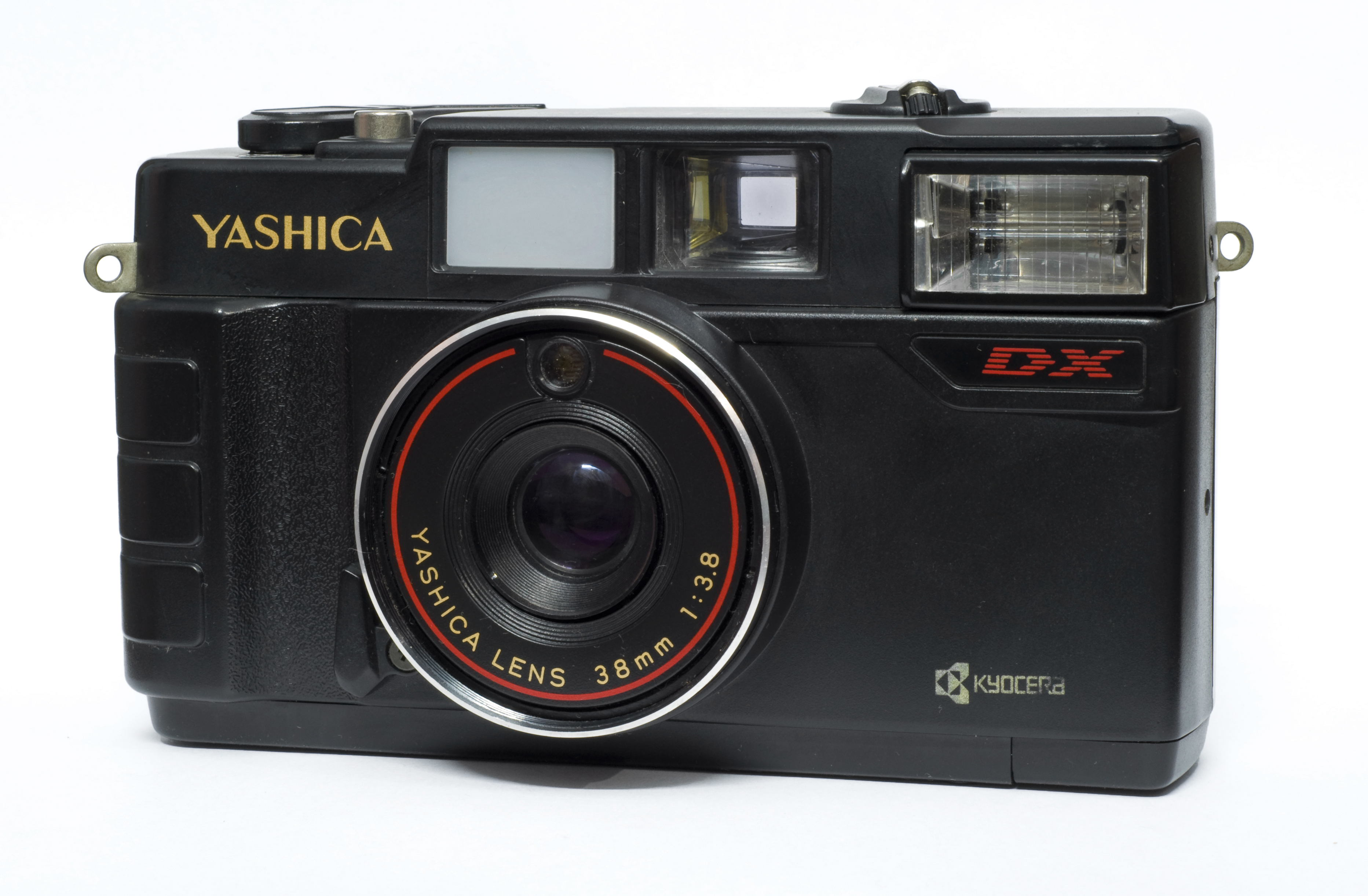 Yashica MF-2 super. 35mm film camera from Yashica.